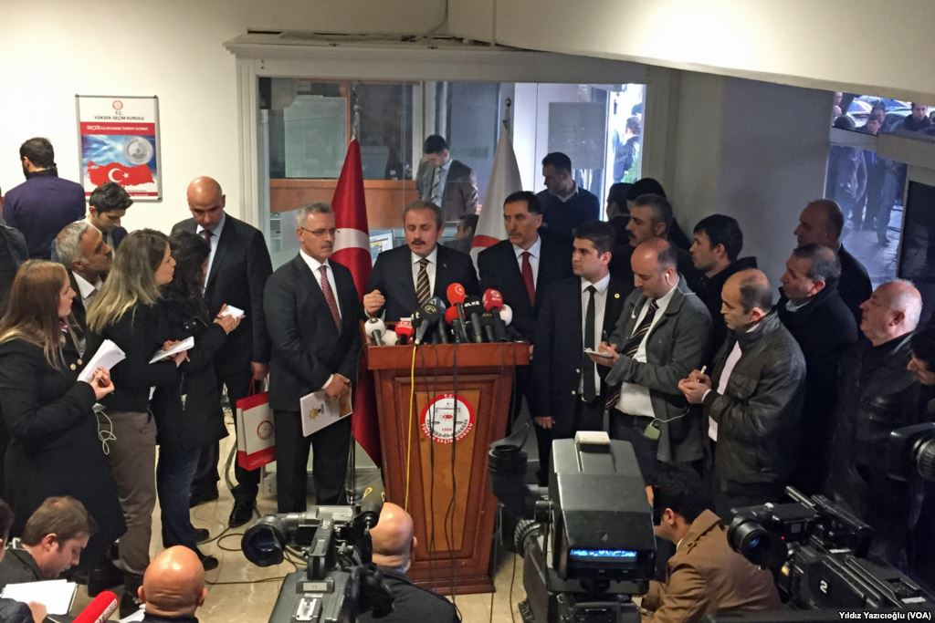 The Justice and Development Party (AKP) presenting their candidate lists to the Supreme Electoral Council of Turkey